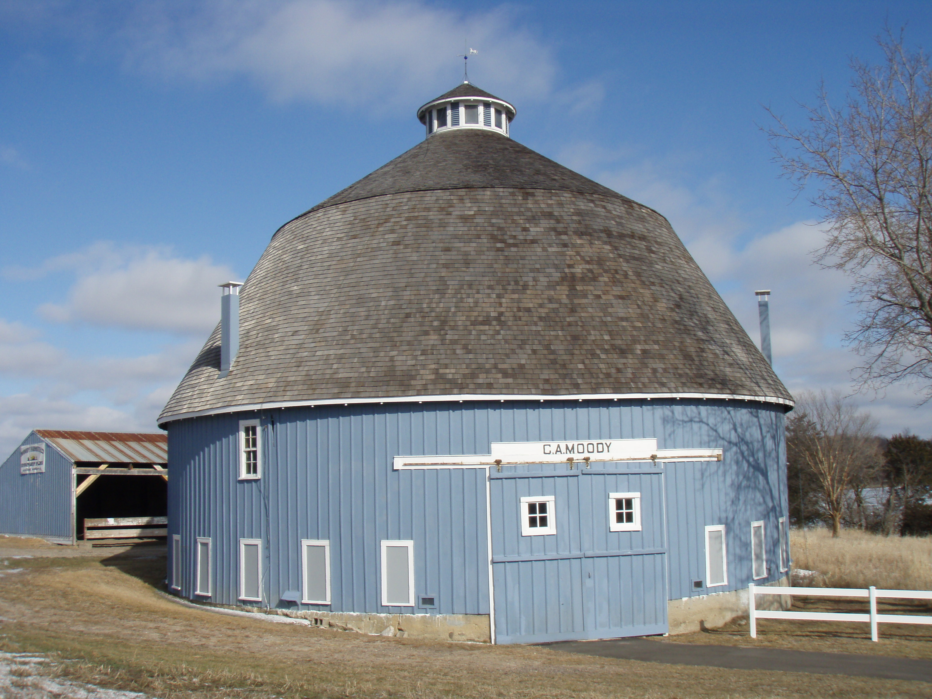 Moody Barn near Chisago City, Minnesota, listed on the National Register of Historic Places.